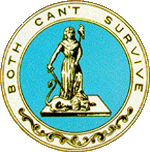 Reverse of the Seal of Pennsylvania